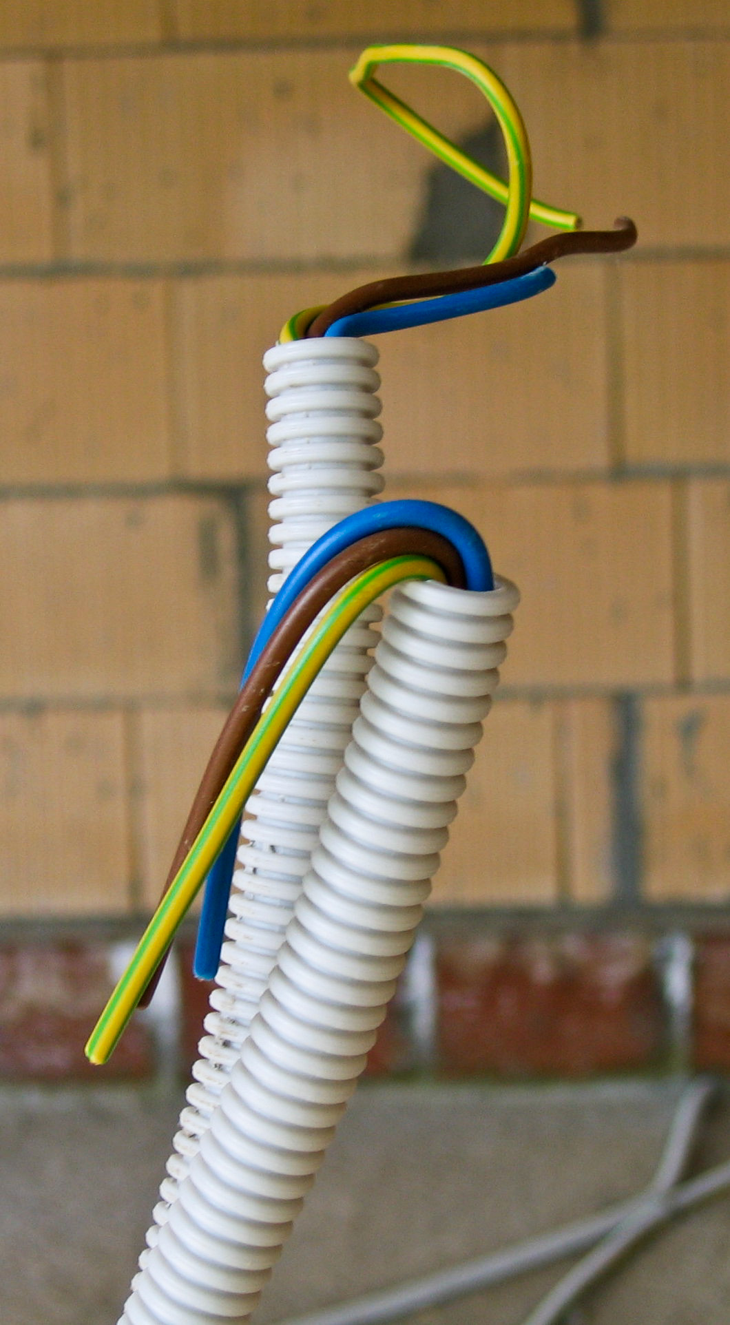 A picture of a electrical wire (with imbedded grounding) commonly used in dwellings. The wire is used to transport 230V alternating current-electricity; which is common for buildings in Europe.